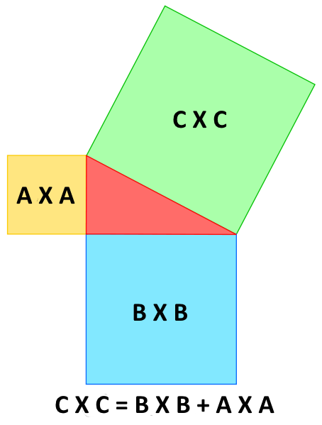 Diagram for Pythagoras theorem in simple arithmetic.